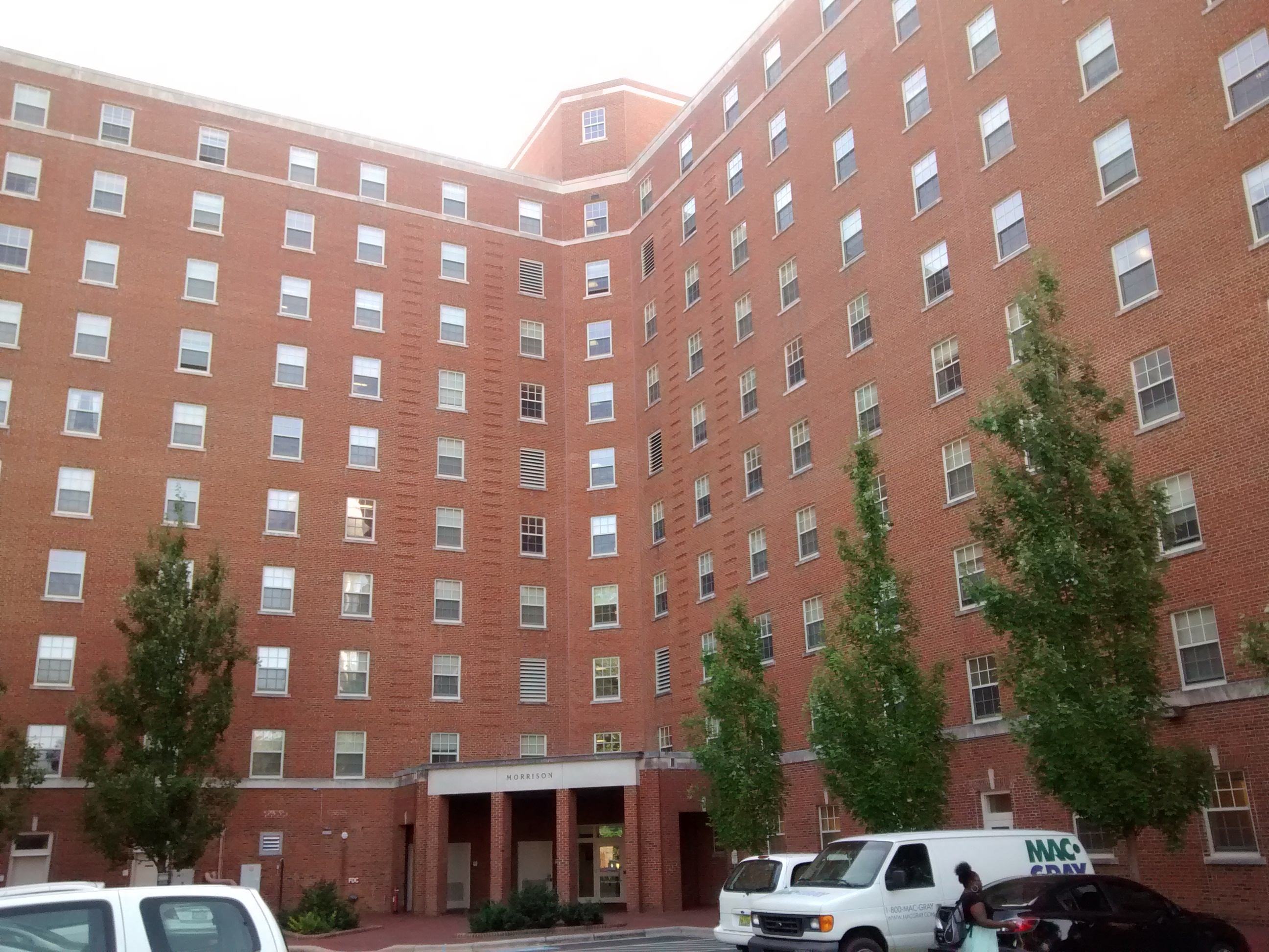 Morrison Residence Hall at the University of North Carolina at Chapel Hill.